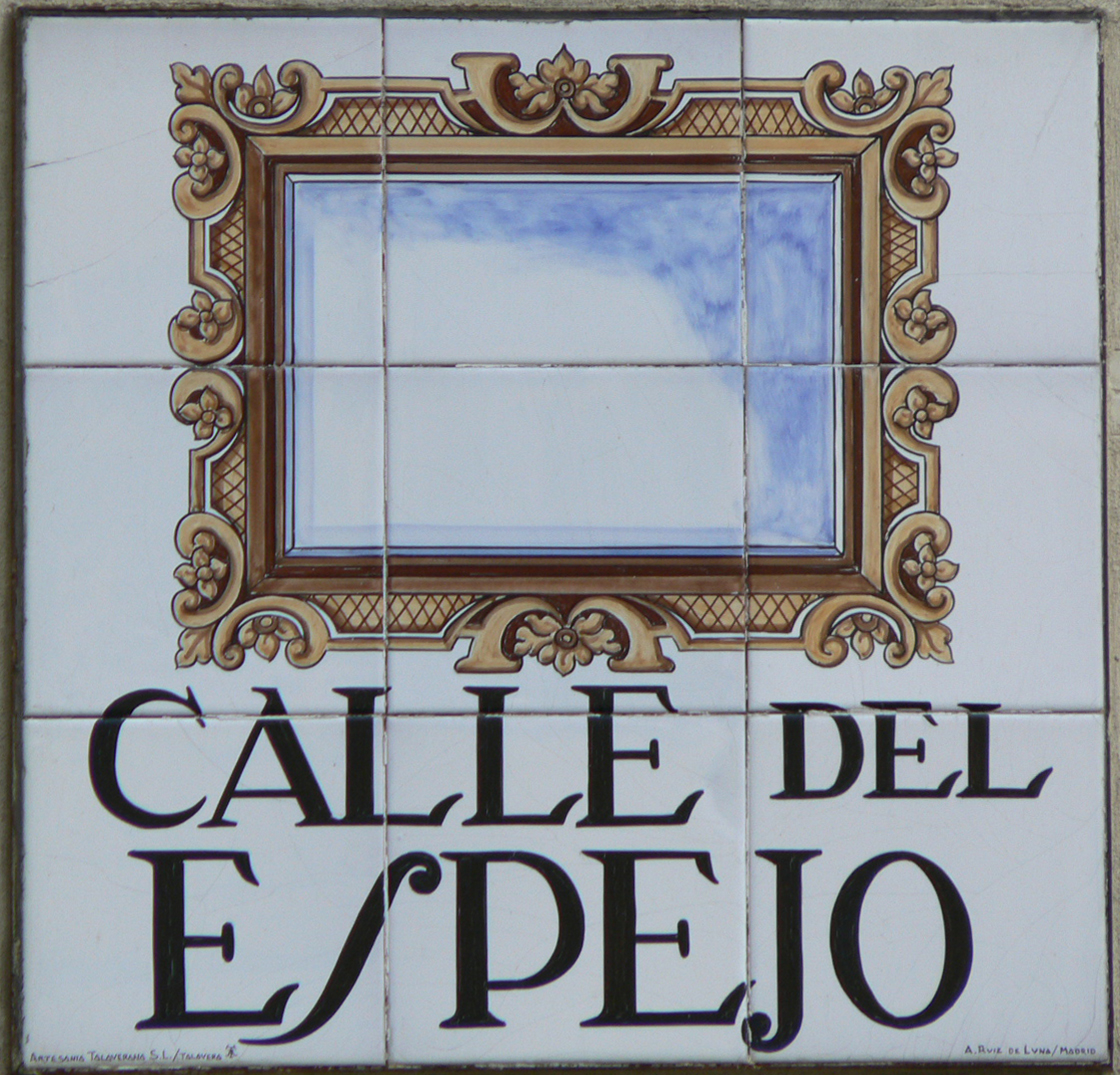 Sign of Calle del Espejo (street, Centro district) in Madrid (Spain).